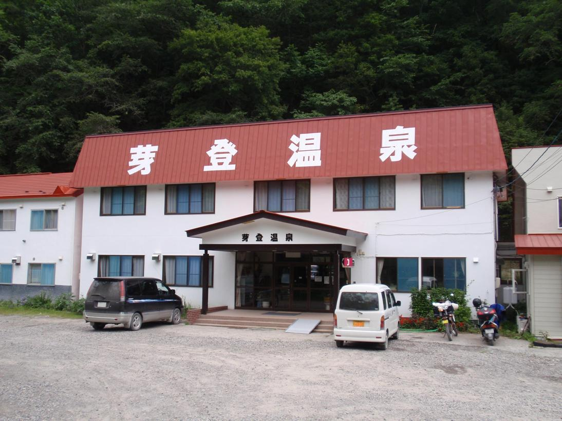 Metou spa in Asyoro, Hokkaido, Japan